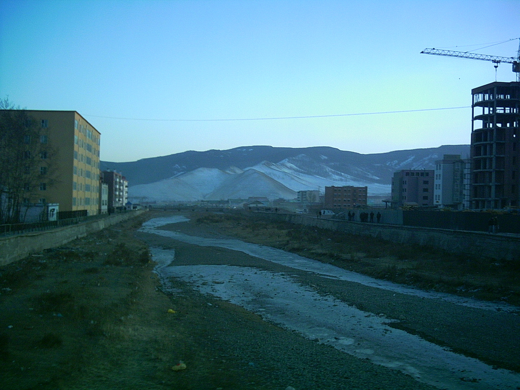 Bogd Khan Uul and Tuul River from Ulan Bator.